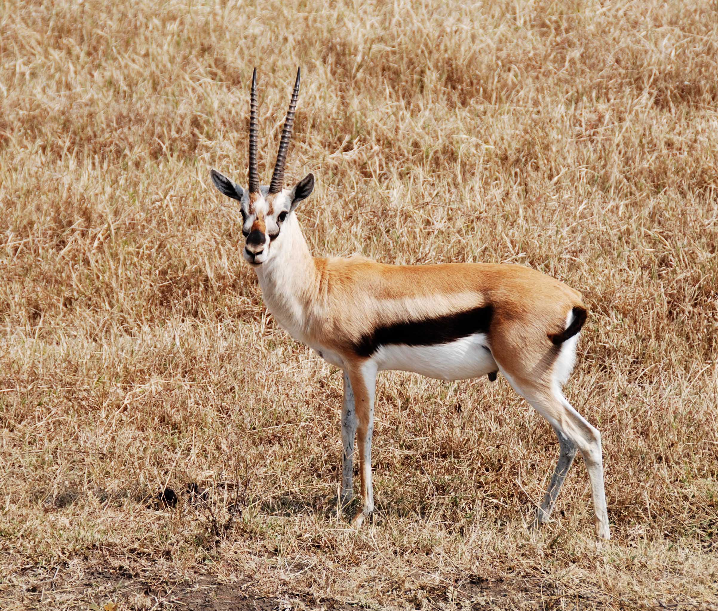 Male Thompson's gazelle. Ngorongoro Crater, Tanzania. Photo by Lee R. Berger